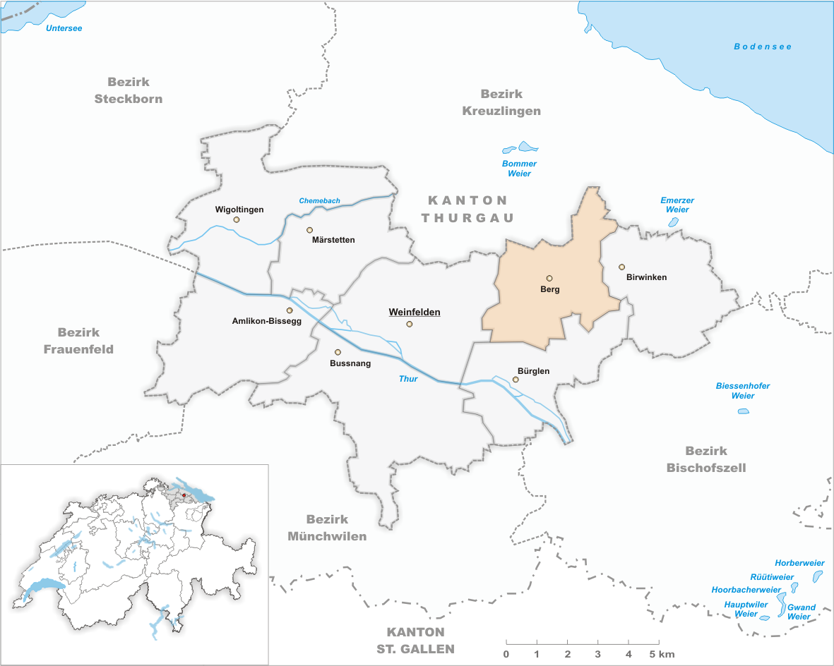 Municipality Berg